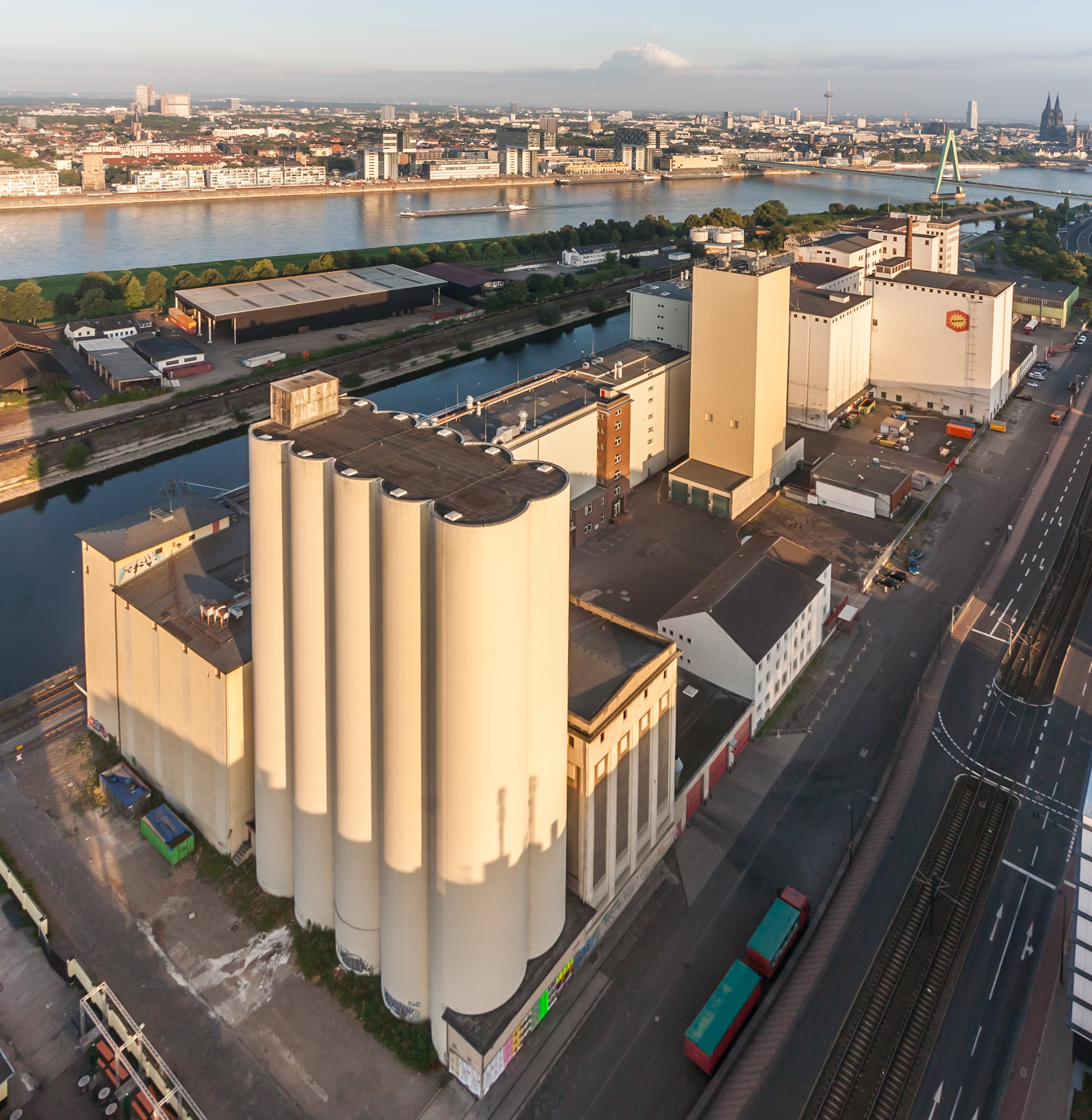 Hot air balloon trip across Cologne